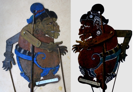 Umarmadi, wayang kulit figure from the epos Serat Menak Sasak